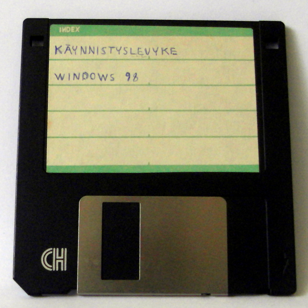 1.44 Mb floppy disk used to boot Windows 98 operating system.